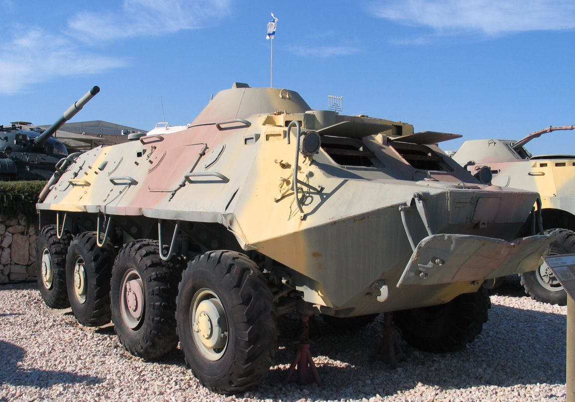 Description: Soviet BTR-60 APC in Yad la-Shiryon Museum, Israel. 2005. Source: Photo by me, User:Bukvoed.